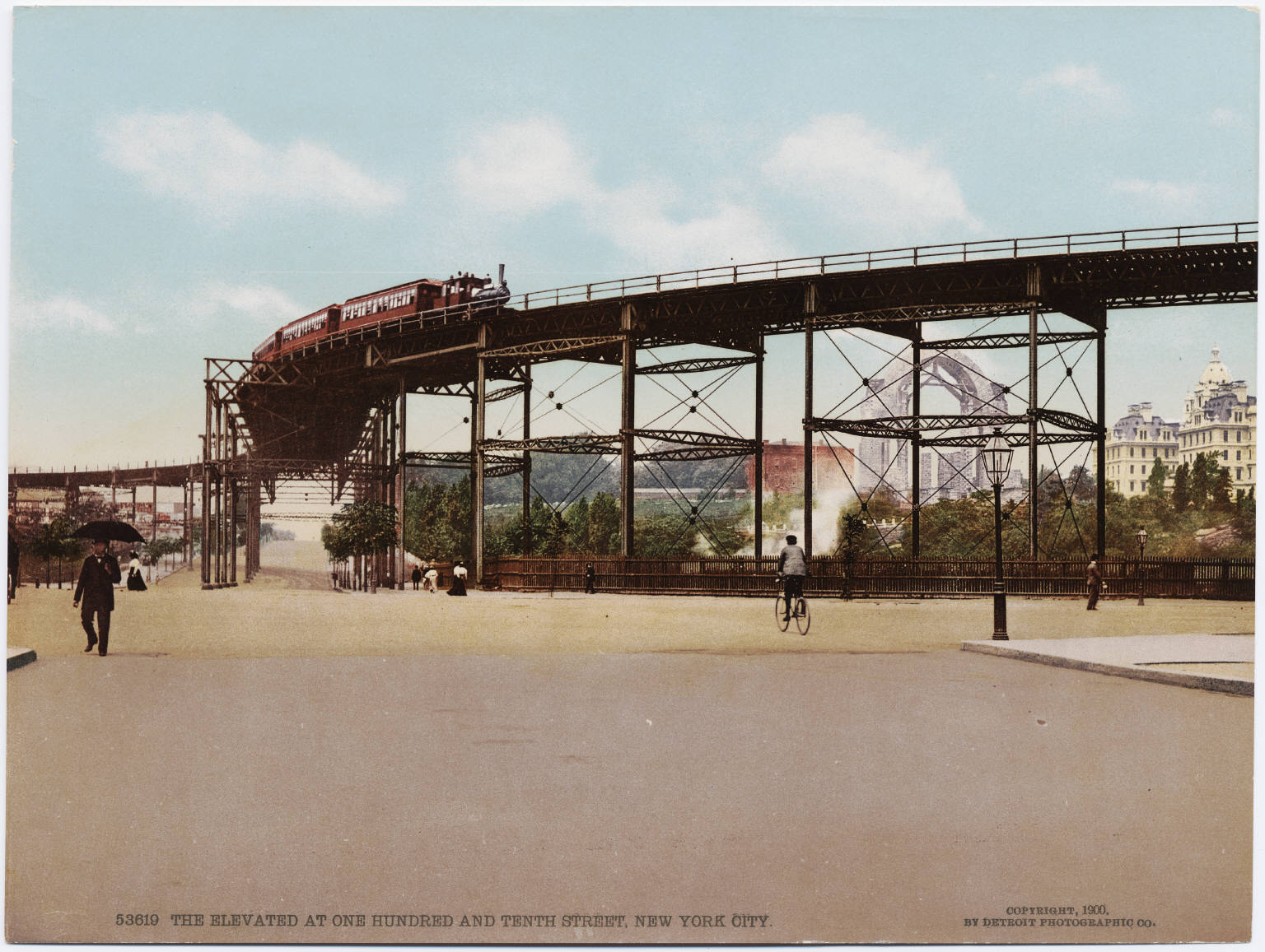 A photochrom postcard published by the Detroit Photographic Company. A train rounds "Suicide Curve". The new Cathedral of Saint John the Divine, New York is seen in background right.